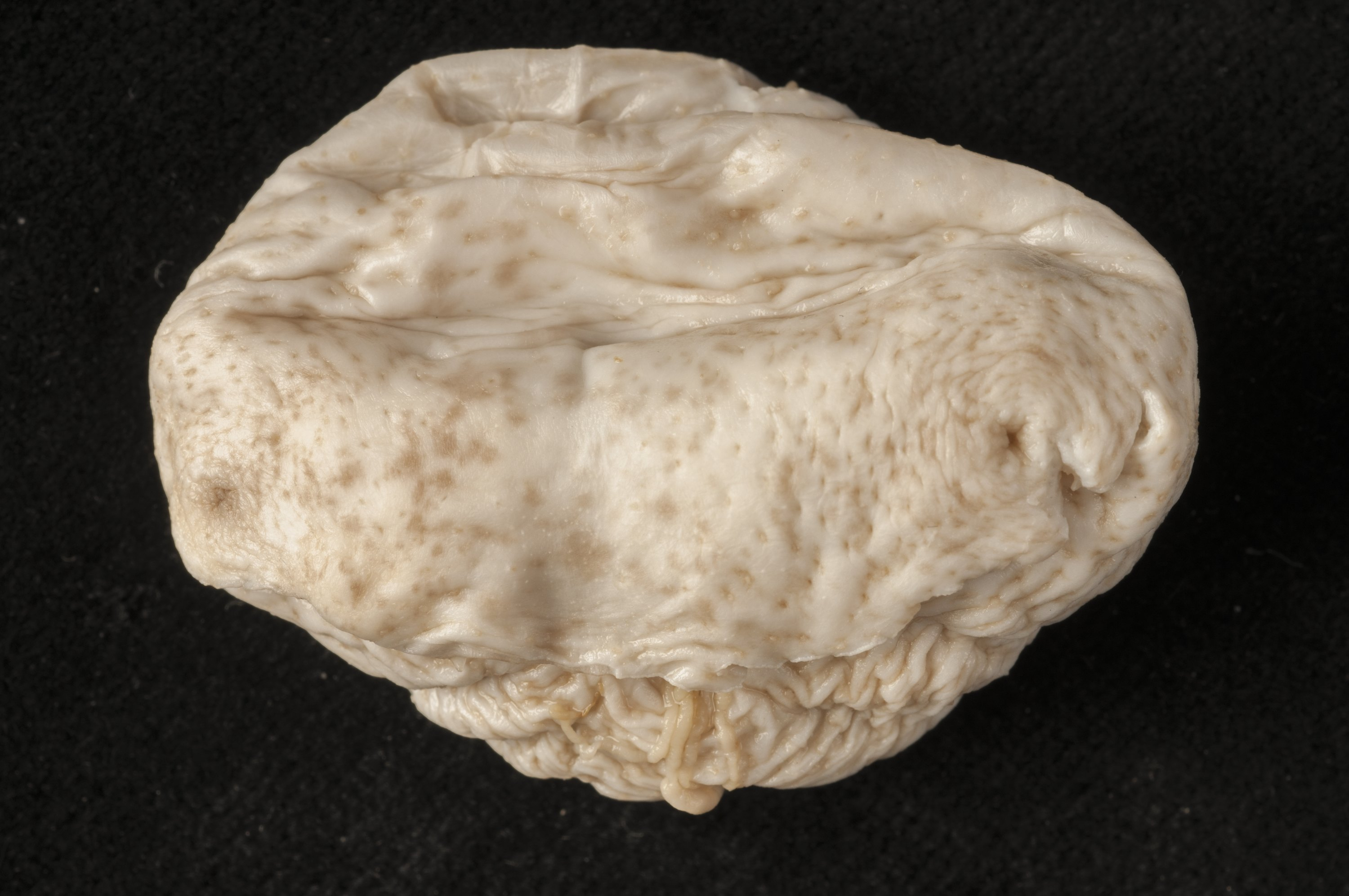 Massinium keesingi O'Loughlin in O'Loughlin et al., 2014; sea cucumber, wet specimen, ventral view. Holotype. Registration no. F 203008